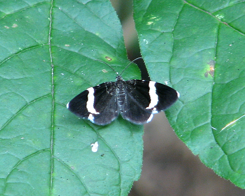 White-striped Black moth (Trichodezia albovittata), Massachusetts, USA